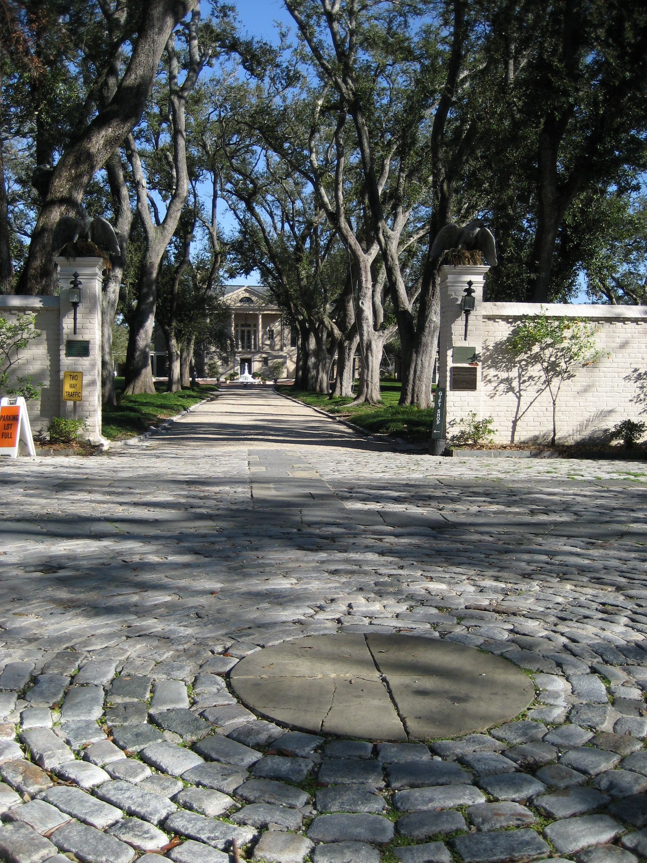 Longue Vue House & Gardens, New Orleans